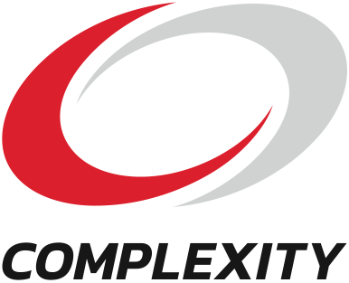 Logo of North-American multigaming esports organization compLexity Gaming